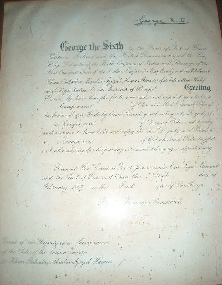 Grant of the Dignity of a Companion of the Order of the Indian Empire to Khan Bahadur , Maulvi Sir Azizul Haque.